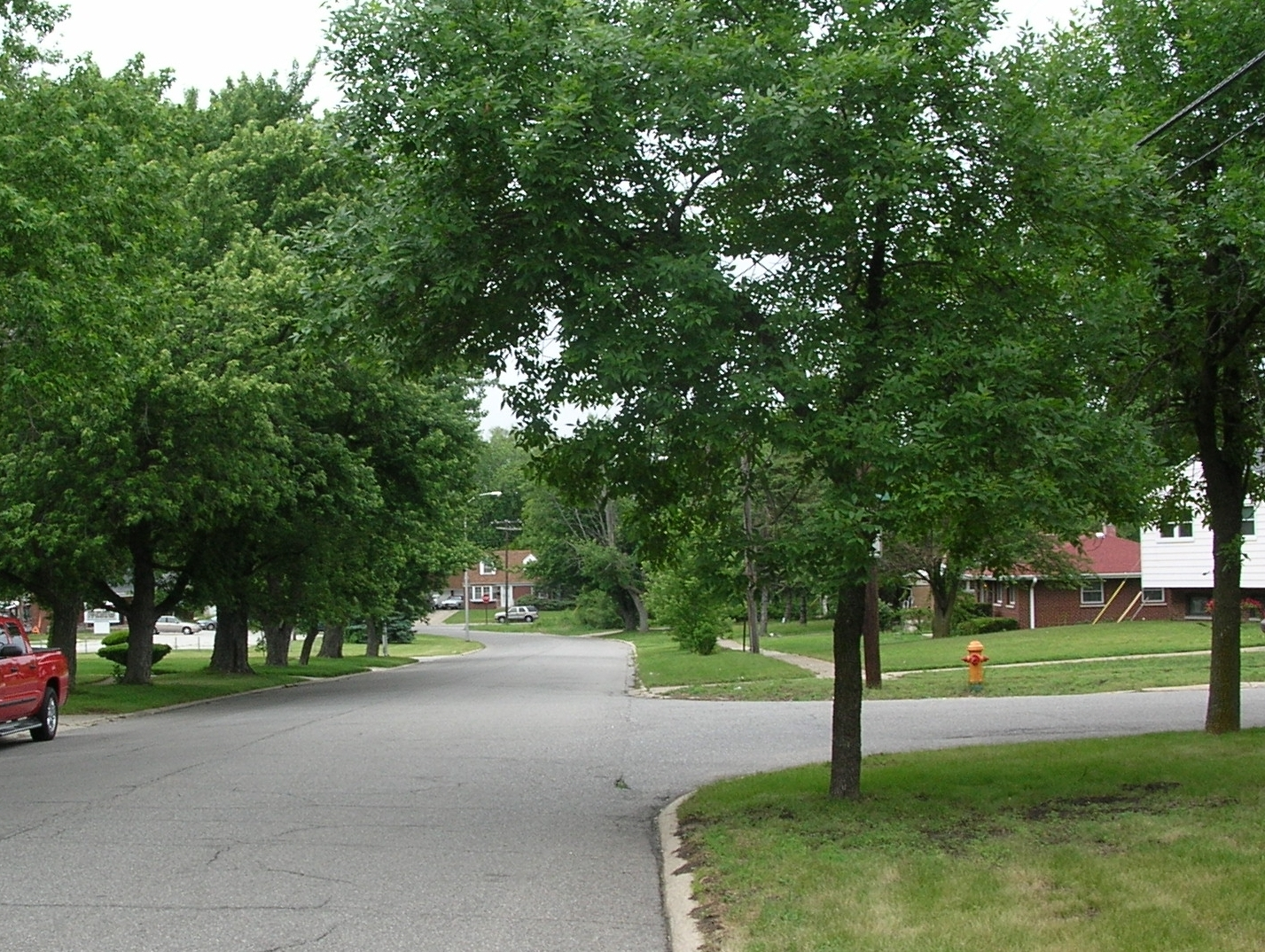 A typical well-kept suburban street in the Aetna neighborhood in Gary, Indiana.